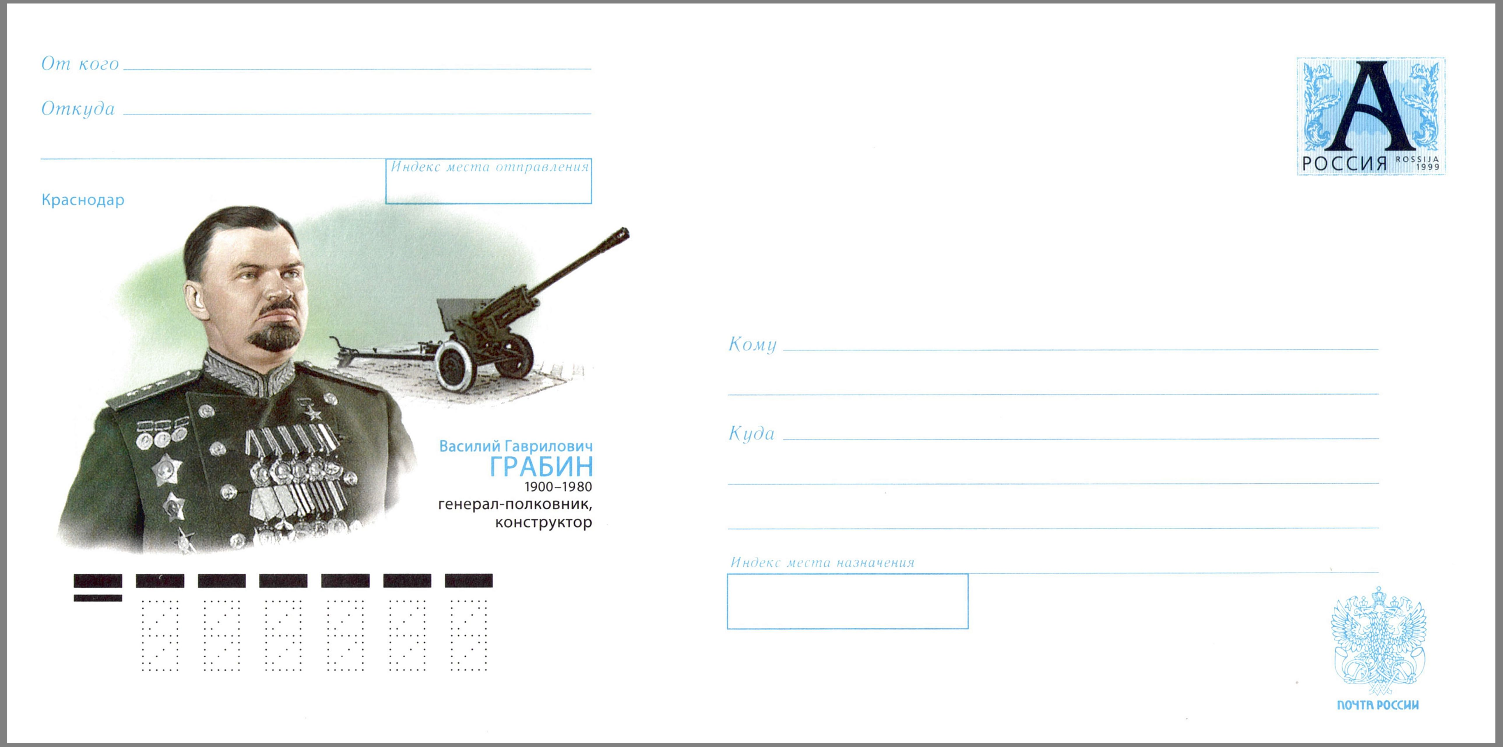 110th birth anniversary of Vasily Grabin (1900–1980), a Soviet artillery designer. Illustrated postal stationery envelope with imprinted definitive non-denominated stamp “Letter A” (for domestic letters, weight 20g or less). Russia, 29 October 2010, Catalogue PTC Marka No 248К-2010/2010-279. Envelope paper with watermarks “ПОЧТА РОССИИ”. Offset printing. Size of the envelope: 110×220 mm. Print run: 500,000. The photo portrait of Vasily Grabin in the uniform of a Colonel General of the Soviet Army, from the personal archive of O. Klyuchnikova. 76 mm divisional gun M1942 (ZiS-3) designed under the guidance of V. Grabin (on the right).